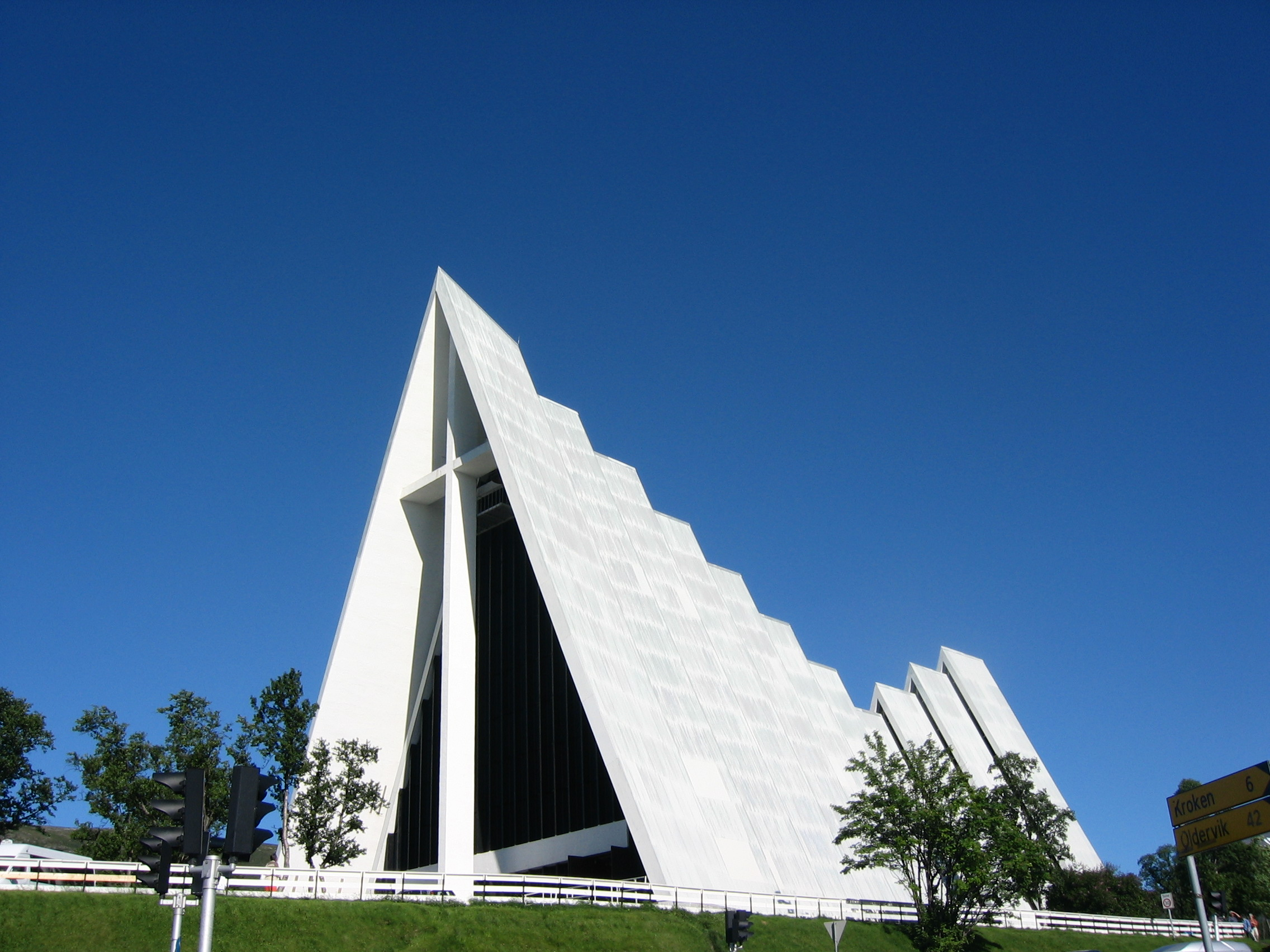 Arctic Cathedral in Tromsø in the Summer of 2004.